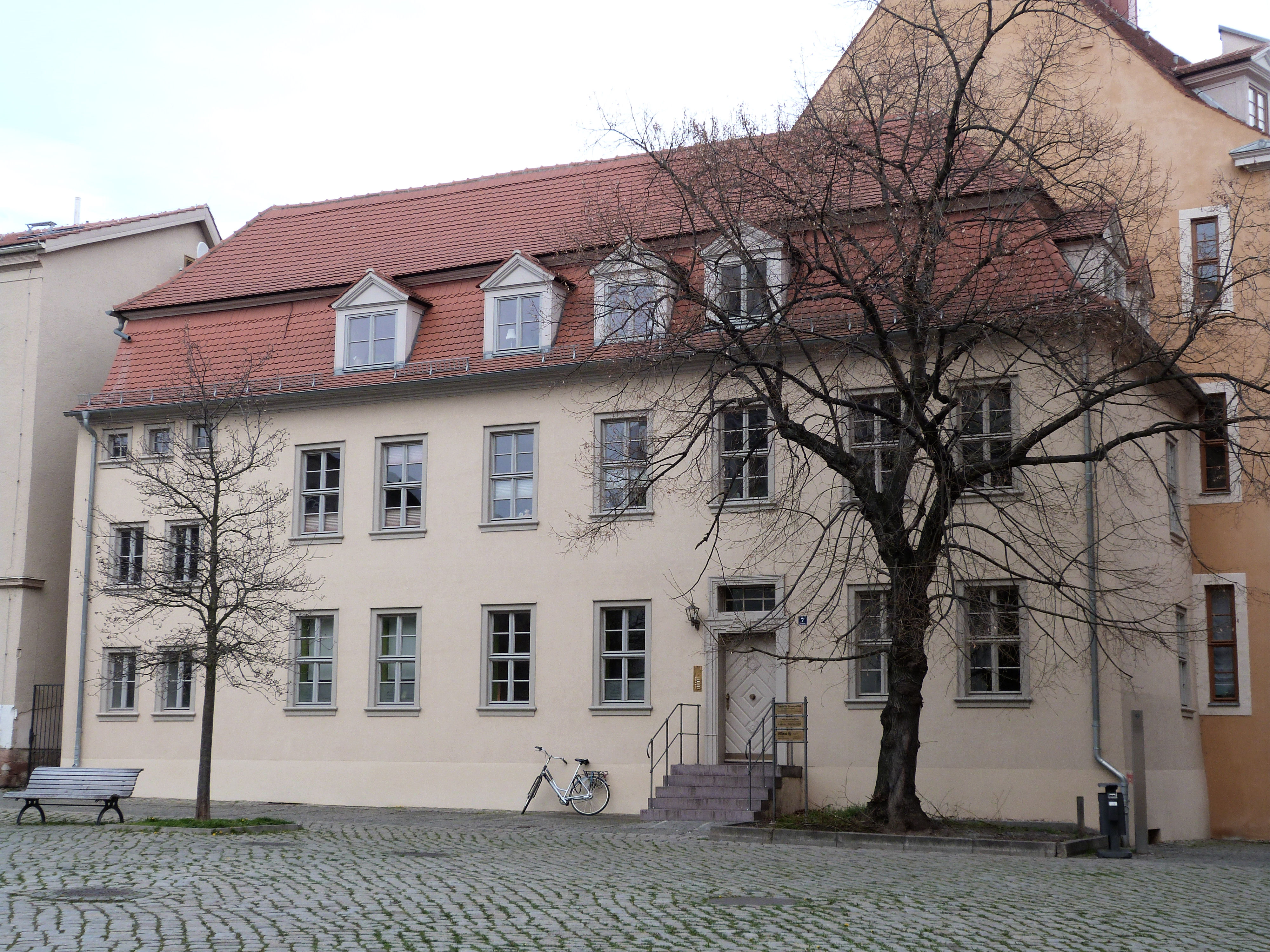 House No. 7, Domplatz, Halle (Saale)